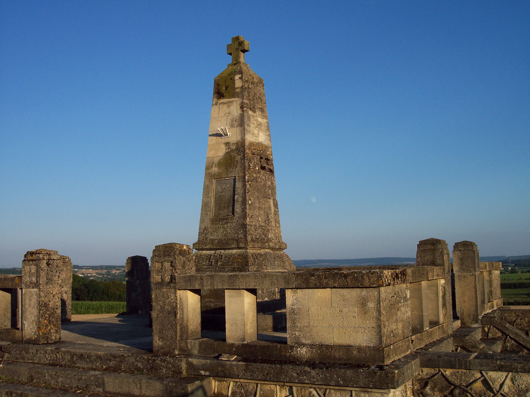 German memorial of First World War, Luzy-Saint-Martin, Meuse, Lorraine, France